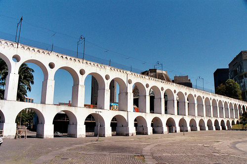 "Arcos da Lapa", Lapa, Rio de Janeiro, Brazil. Former Roman-style aqueduct converted to a trolley bridge.